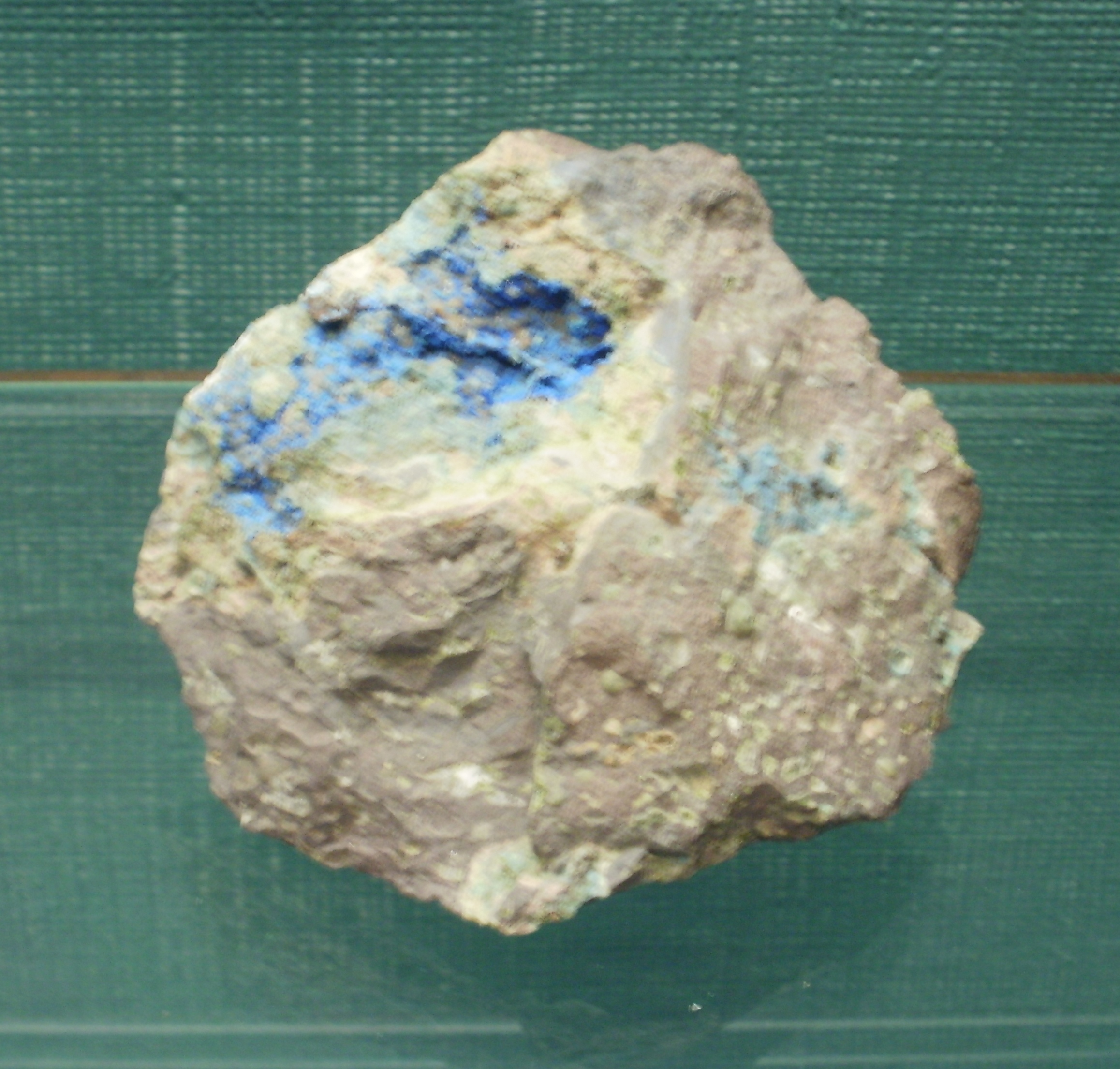 Calumetite from the Akmeek No. 2 Mine in Keweenaw County, Michigan. Held in the A. E. Seaman Mineral Museum.